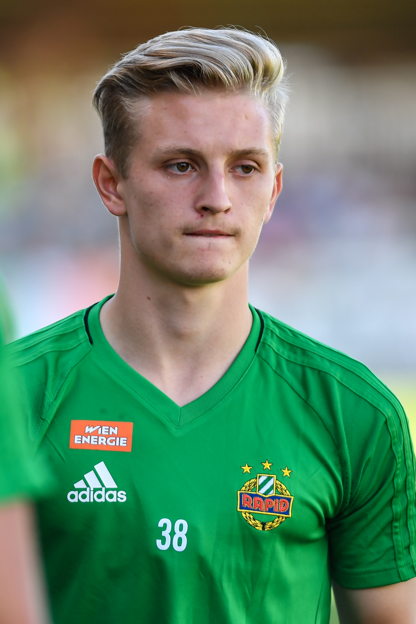 1/7/2017, Amstetten, Austria, sports, soccer, Tipico Fussball Bundesliga - preparation match SK Rapid Wien vs Celtic Glasgow. Image shows Manuel Thurnwald (SCR).